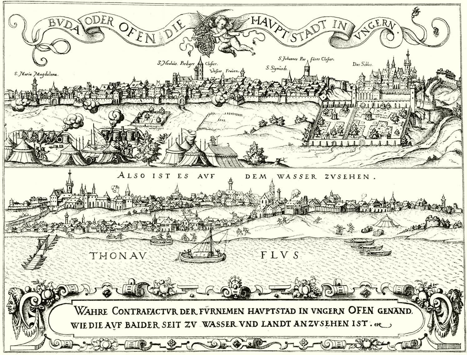 Buda, 1541